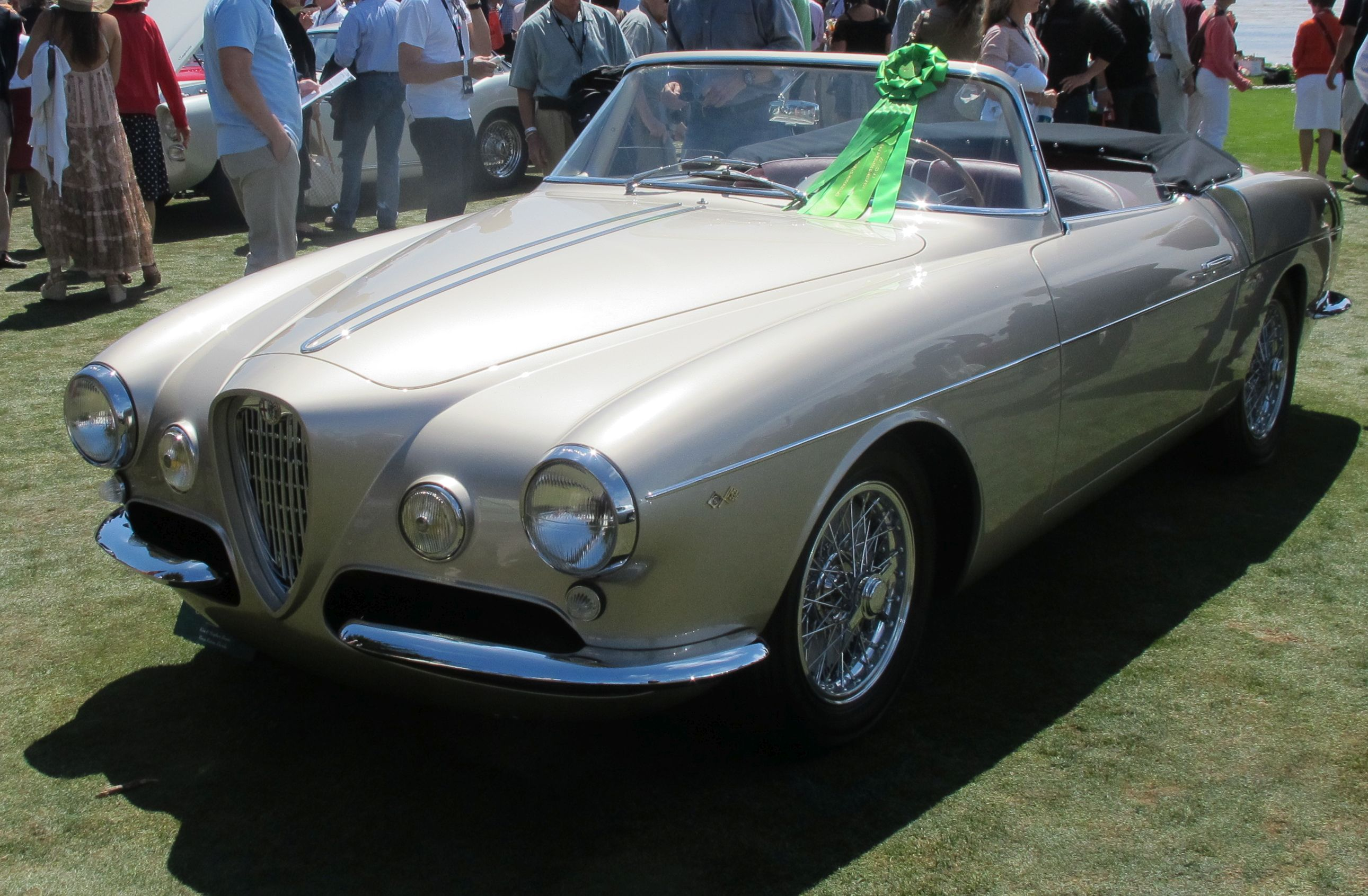 A 1955 Alfa-Romeo 1900C SS Super Sprint Cabriolet with a custom body by Ghia-Aigle. The car was shown at the Geneva Auto Salon in 1955.